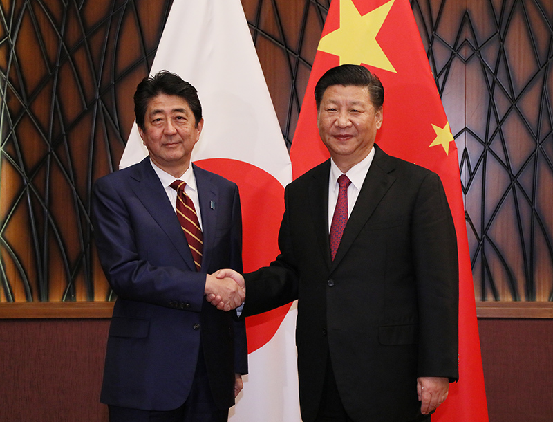 Japanese Prime Minister Shinzō Abe and Chinese President Xi Jinping shaking hands.